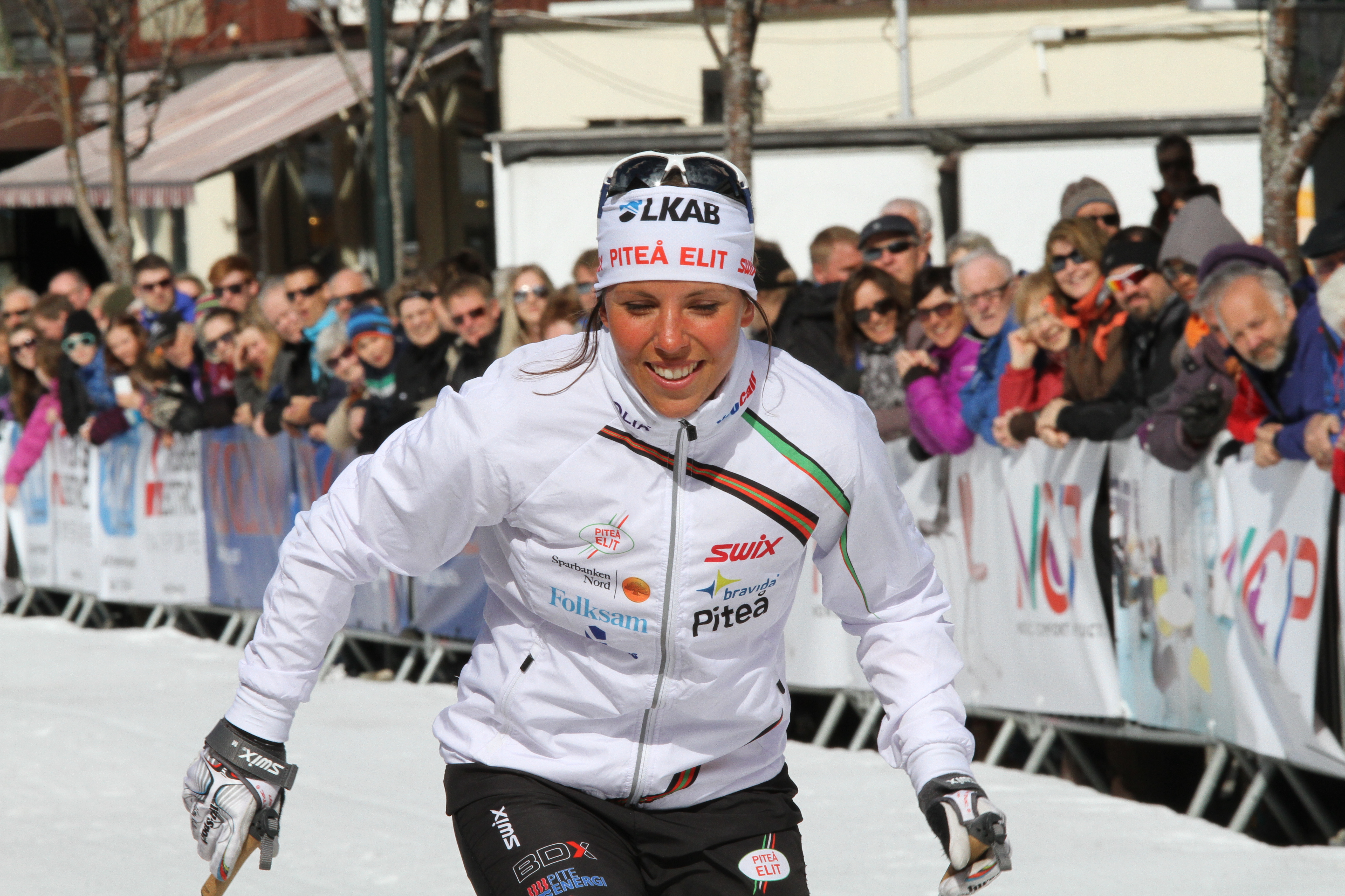 Swedish cross-country skier Charlotte Kalla (in Piteå Elit's club colours) at the exhibition sprint race "Bysprinten" in Mosjøen, Norway.